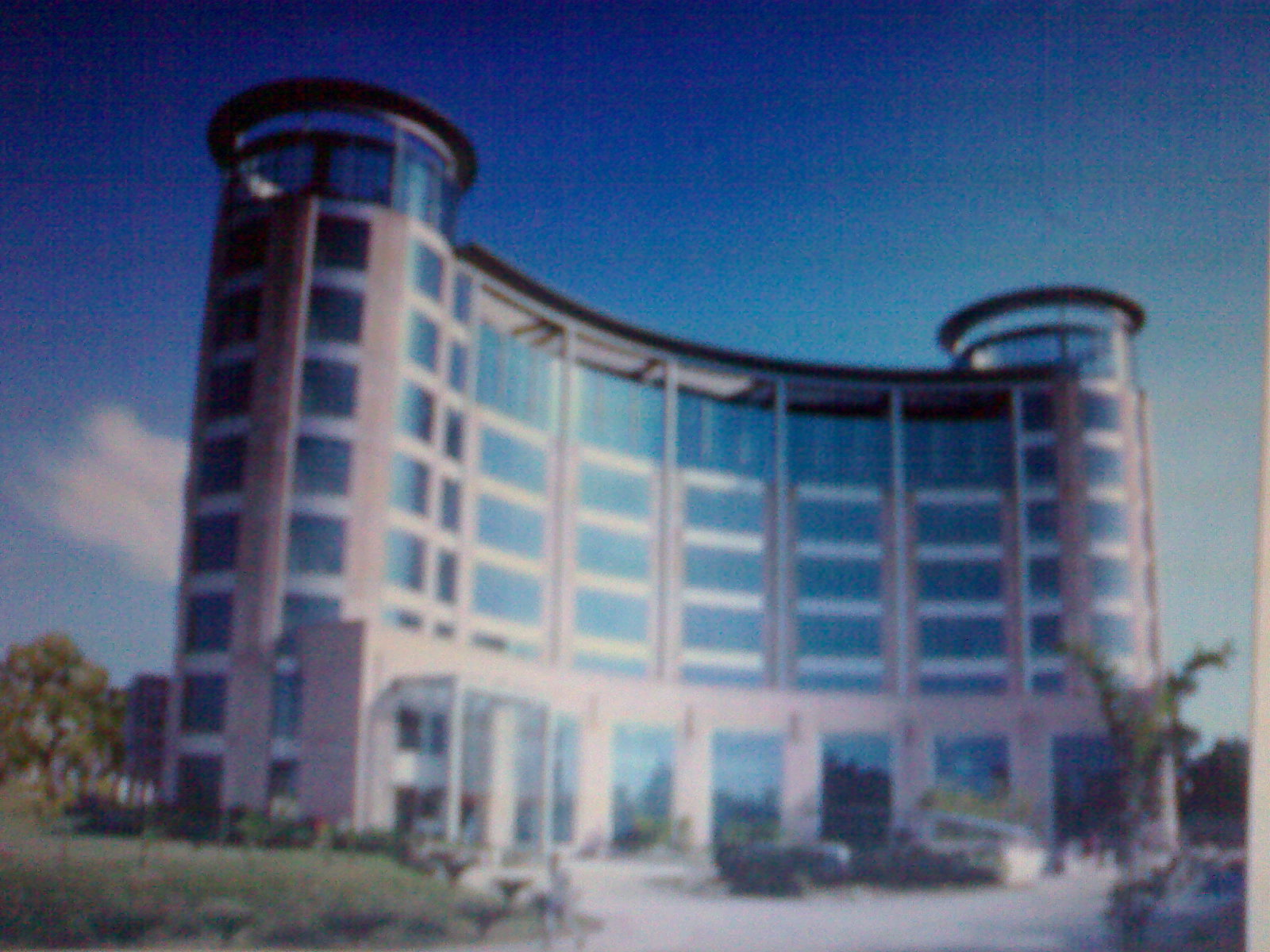 TCS Awadh Park, Tata Consultancy Services' regional office at Lucknow.